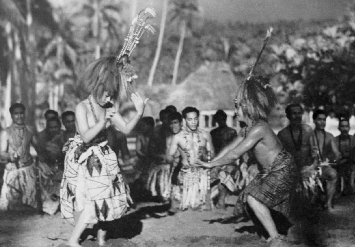 Photo of the wedding of Moana from the 1926 film Moana. A renewal search was done at using the author's name. There were no listings for Frances Hubbard Flarety. There's no evidence of renewal for this book.